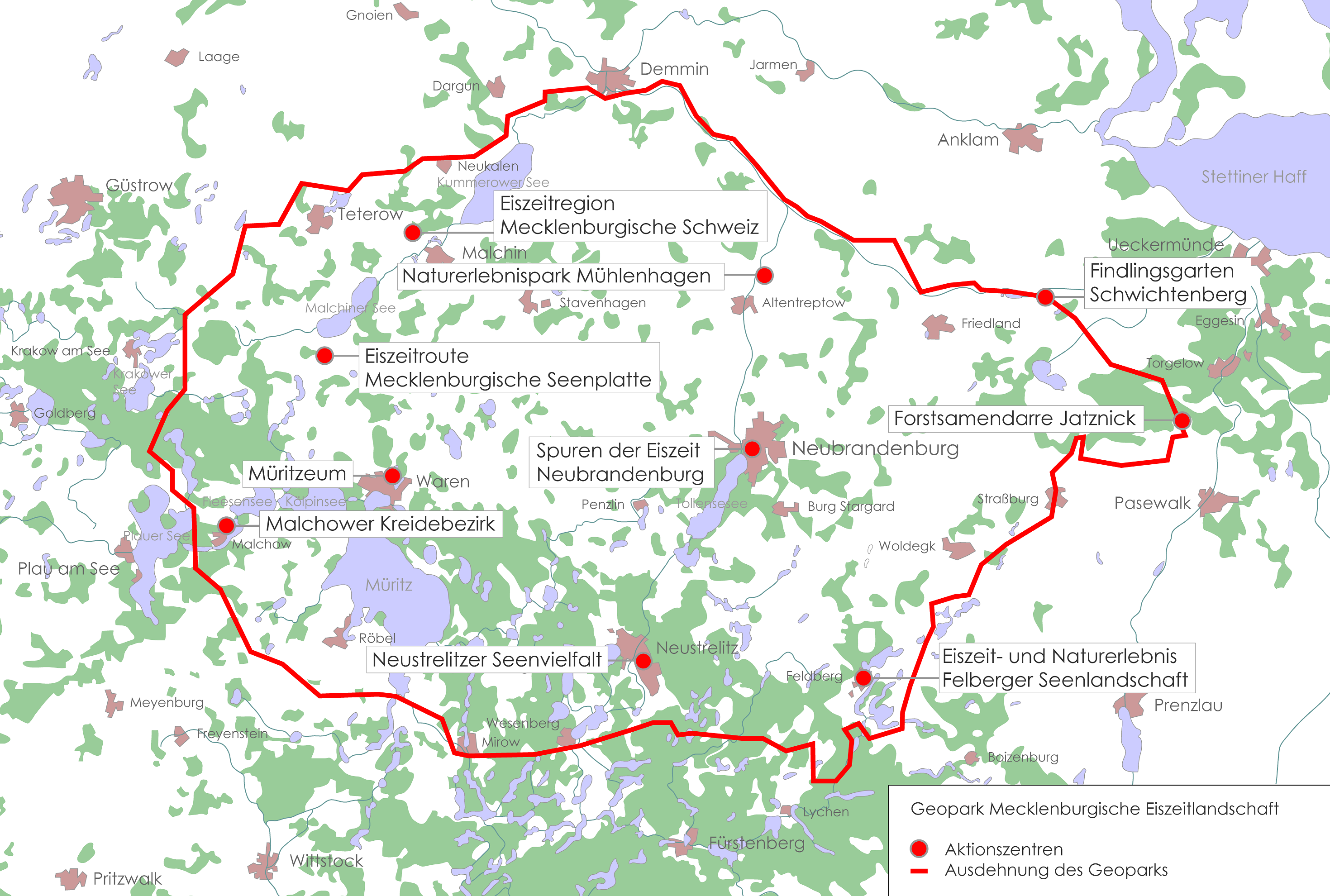 size of the geological park Mecklenburgische Eiszeitlandschaft in Mecklenburg